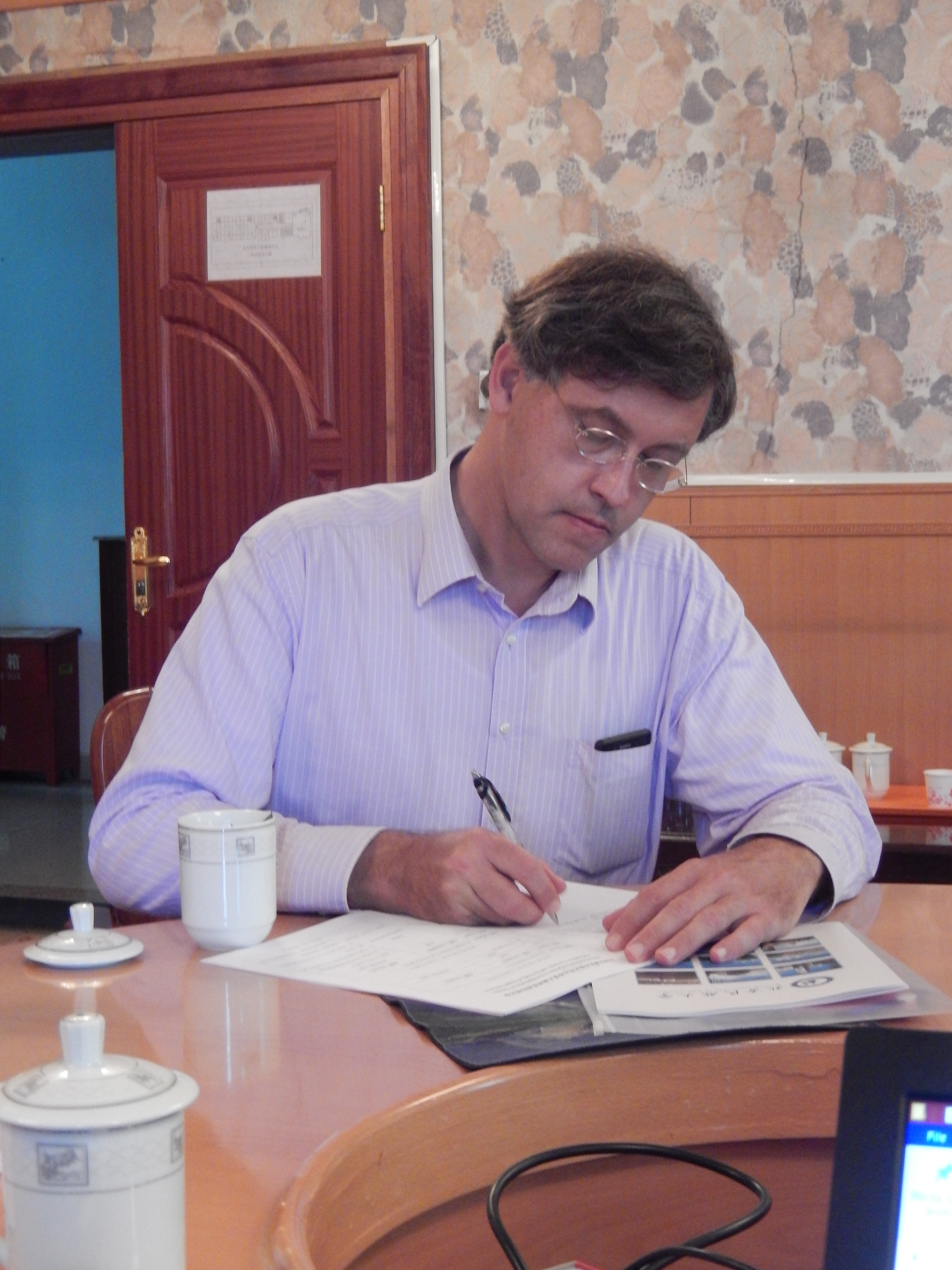 French sinologist Pierre Marsone, at a conference on encoding Khitan scripts held at the Beifang University of Nationalities, Yinchuan, Ningxia, China, 20-21 August 2016.